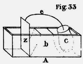 Experimental device of Robert Were Fox the Younger